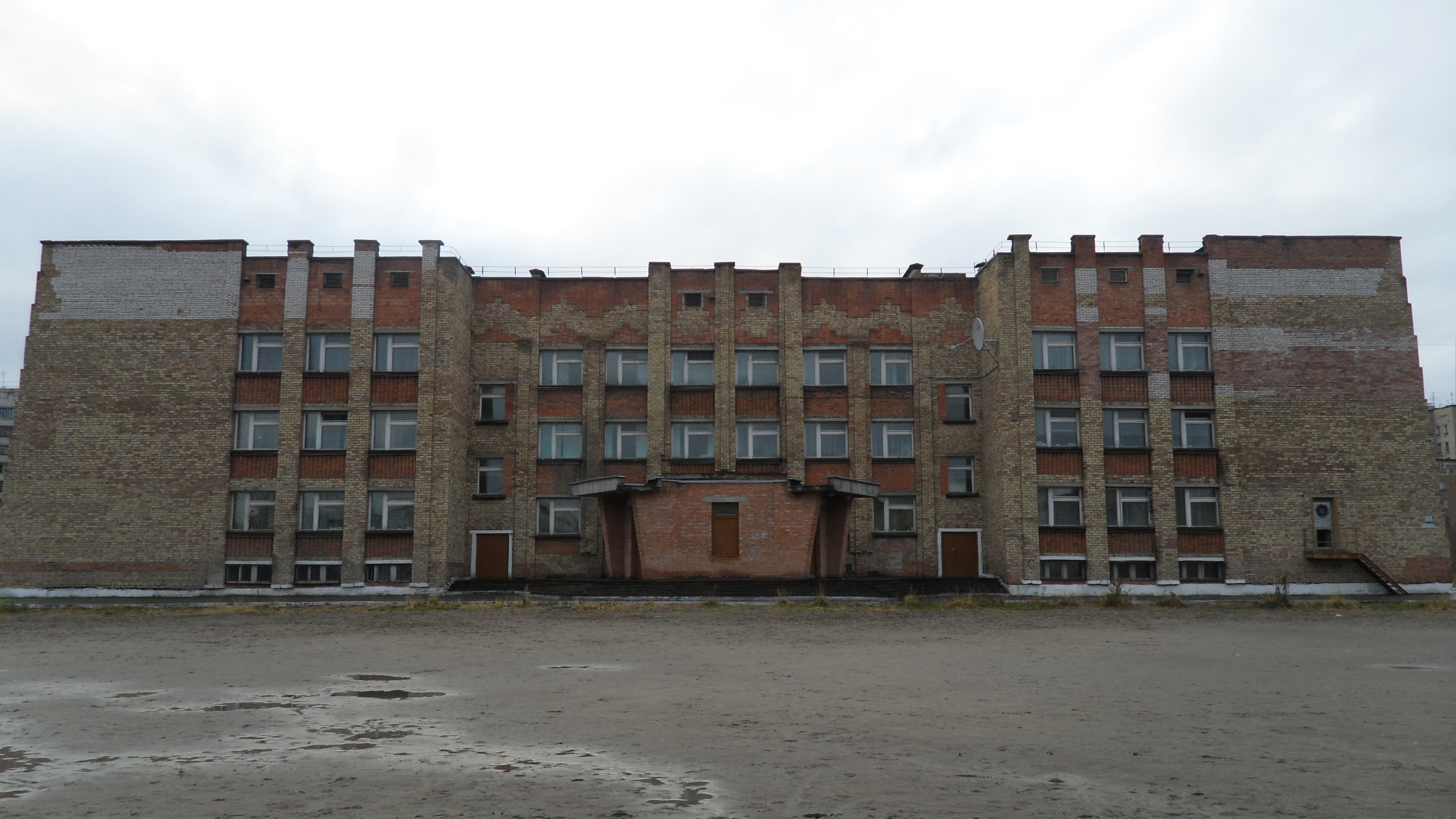 Lyceum №1 of Inta